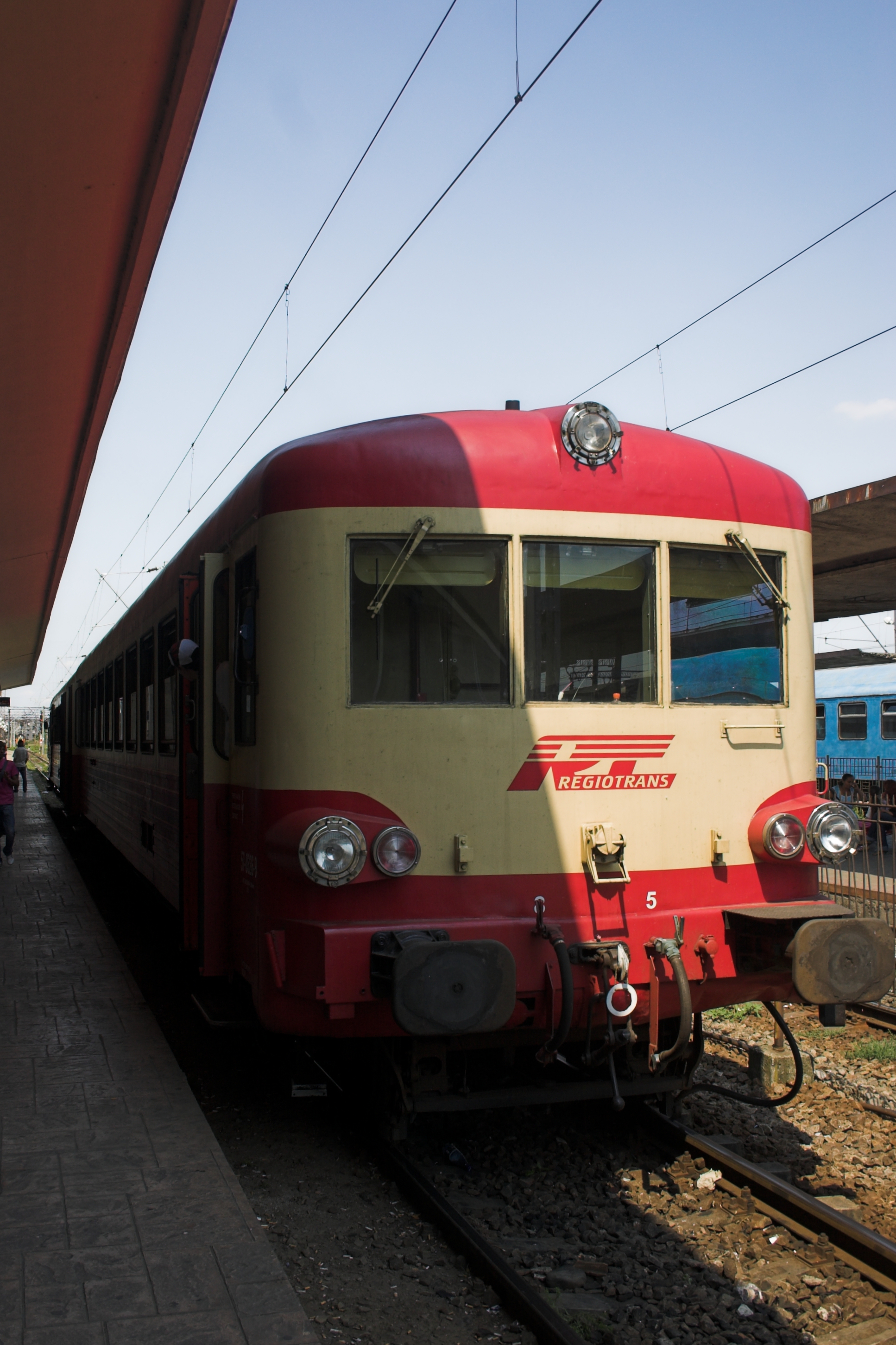 An ex-SNCF Class X 4300 Regiotrans diesel unit in Arad railway station.